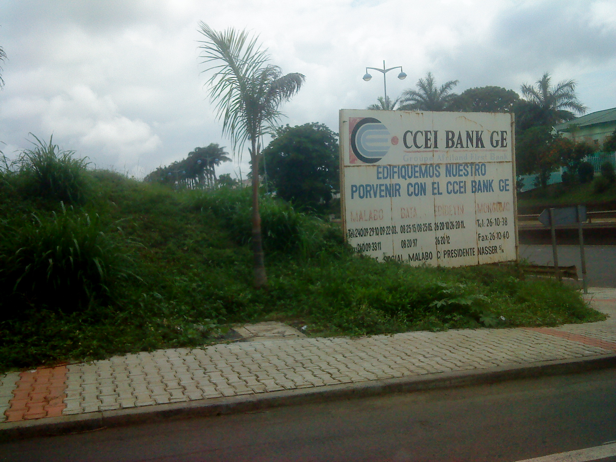 A sign in Malabo, Equatorial Guinea